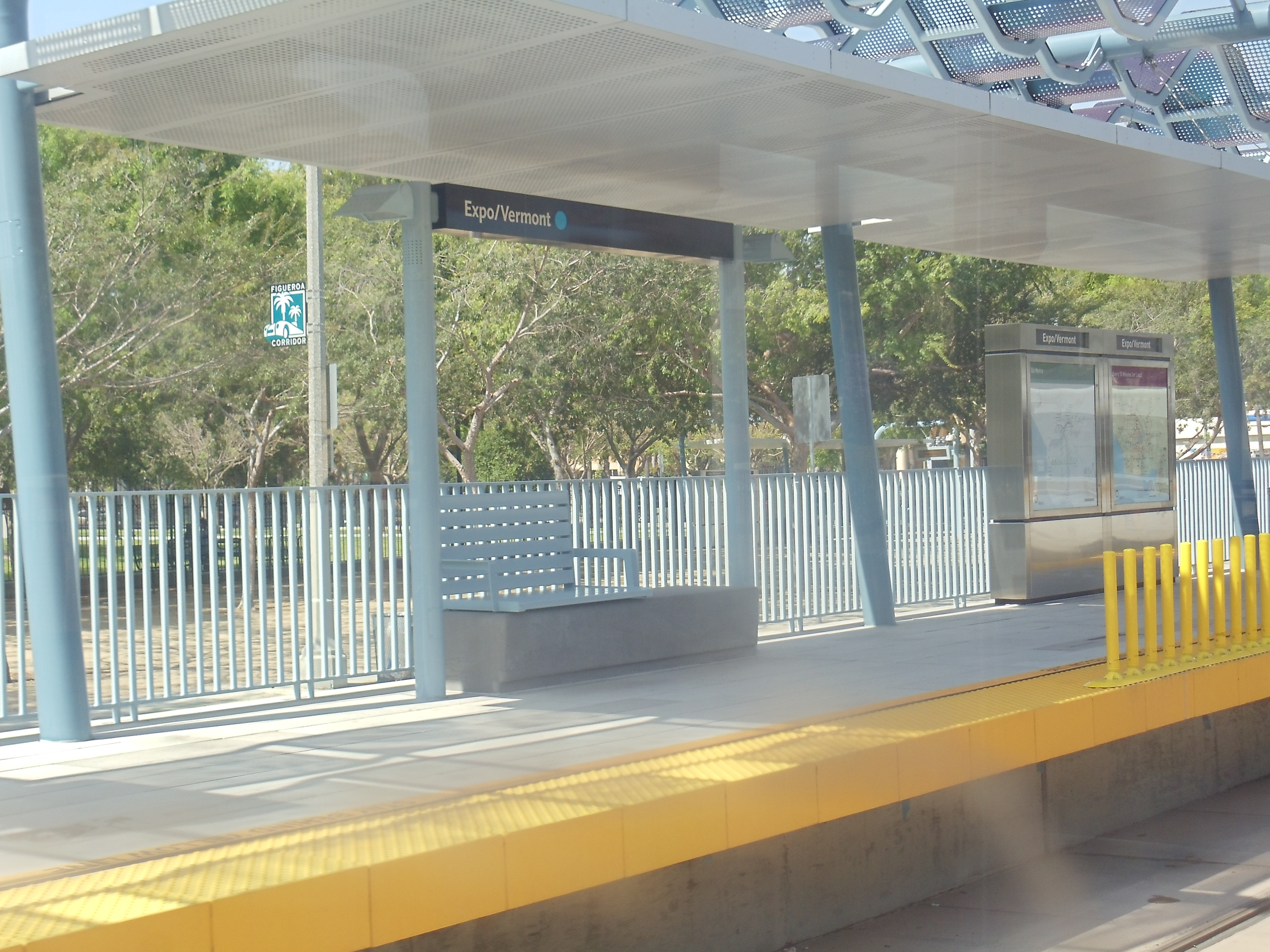 Expo/Vermont Station, eastbound platform.